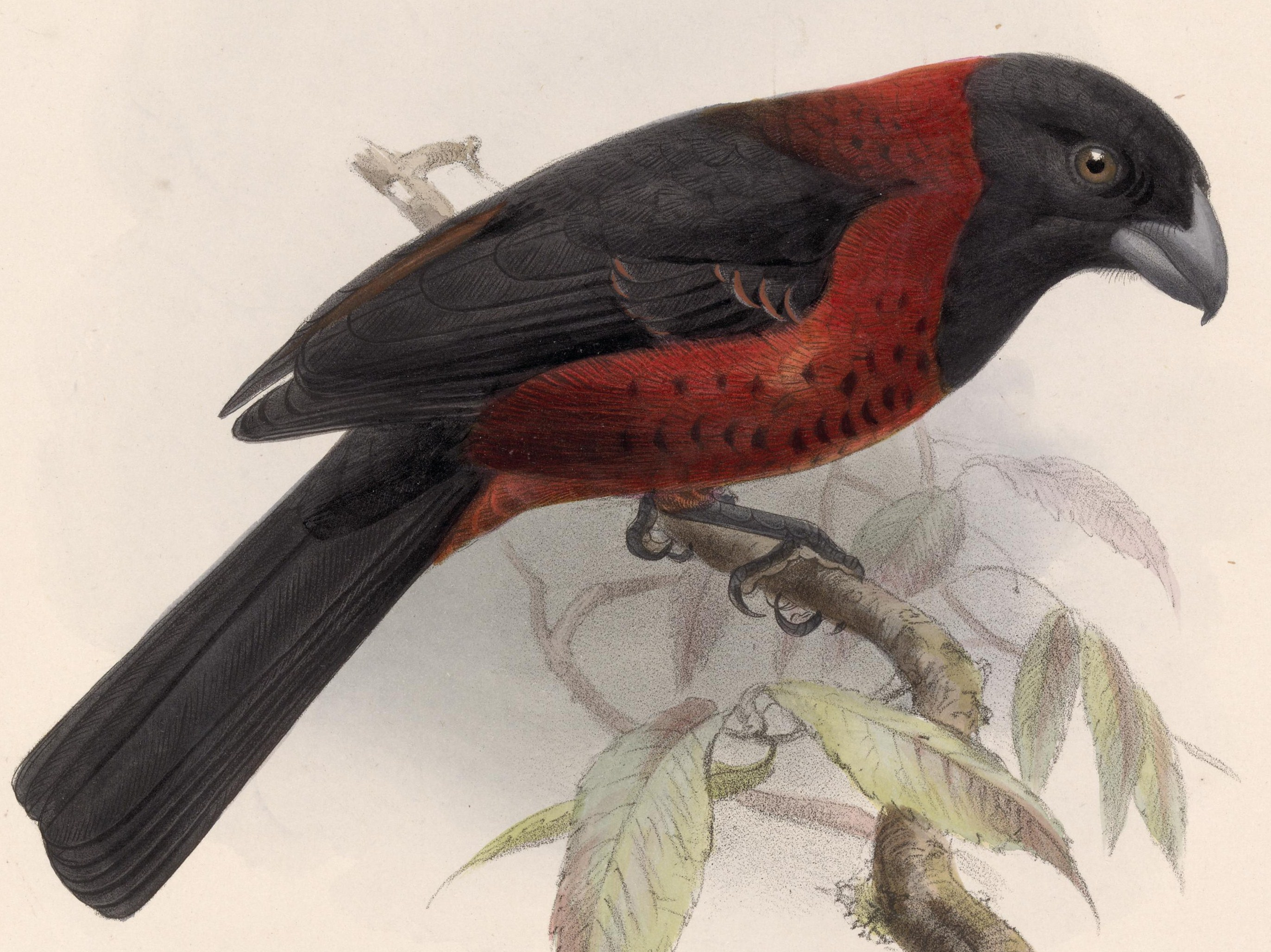 « Pitylus celaeno » = Rhodothraupis celaeno (Crimson-collared Grosbeak)